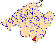 Localització de Ses Salines